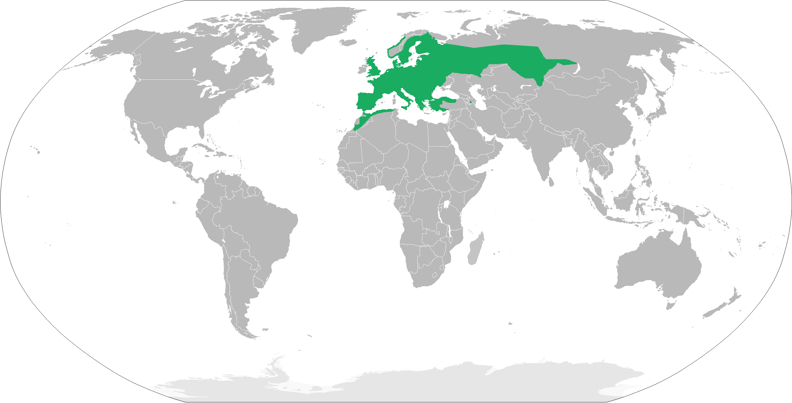 Range map of common toad (Bufo bufo).